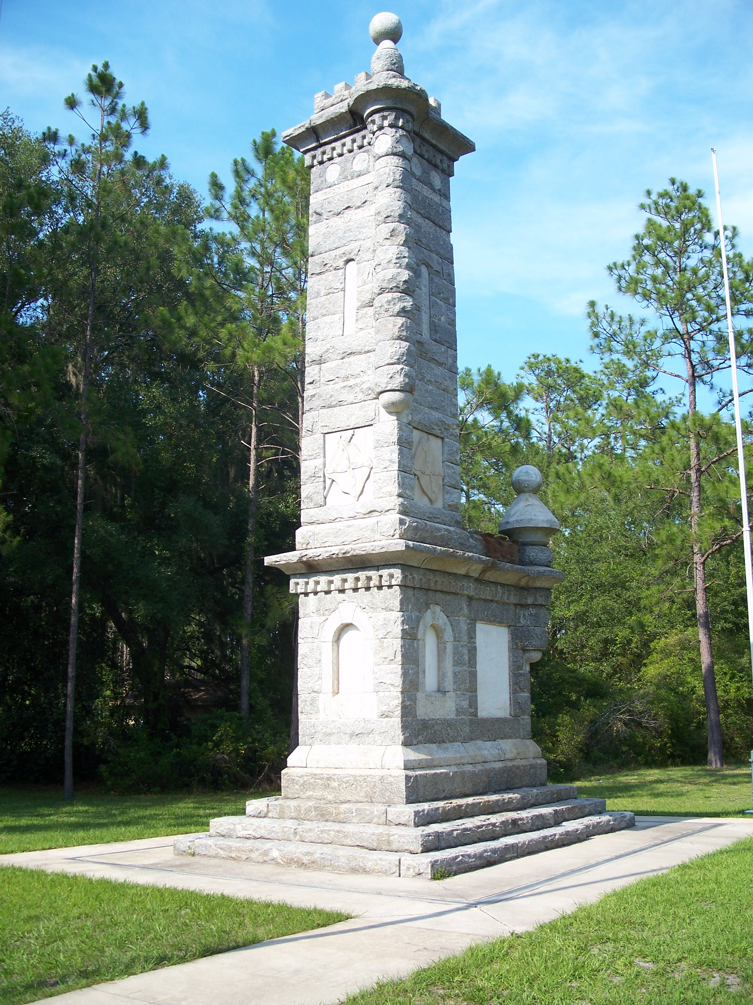 Olustee Battlefield Historic State Park, in Baker County, Florida